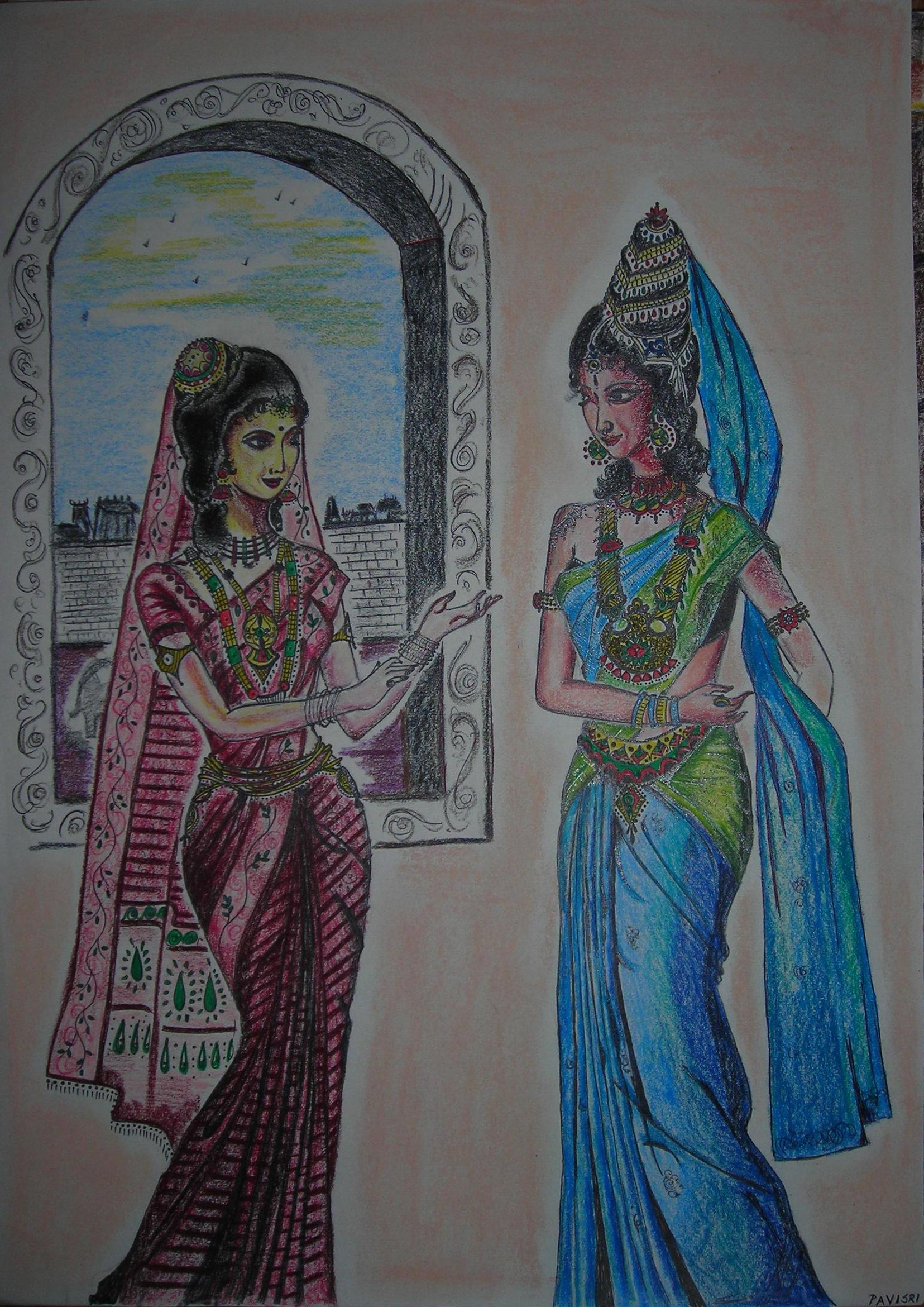 Art-work of a meeting between Princess Kundhavai and Nandhini, in Thanjavur, possibly sometime in Book 2 of Ponniyin Selvan. (Their attire is, of course, my own imagination.)